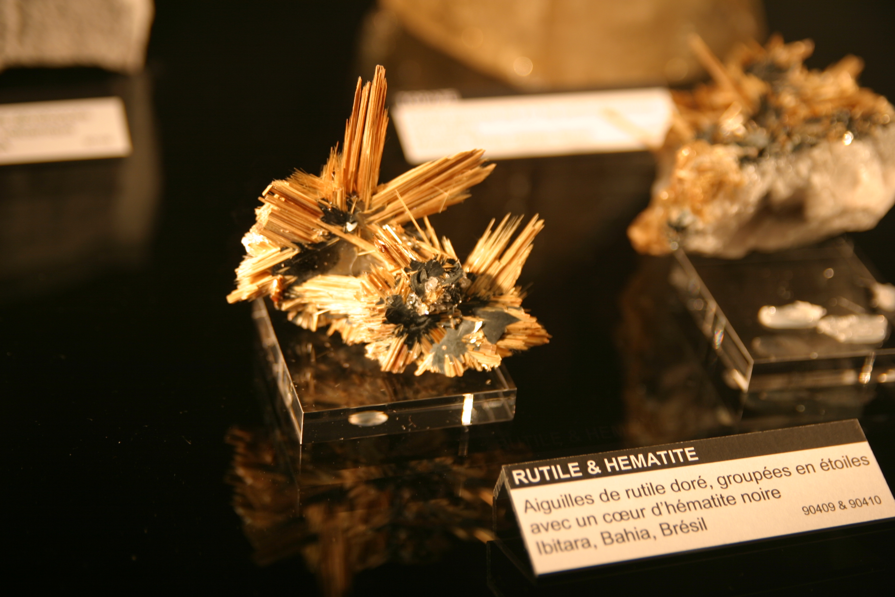 Museum of Lausanne